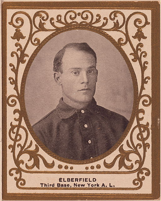 Kid Elberfeld on a 1909 American Tobacco Company baseball card (Ramly Cigarettes (T204)). Note that his name is misspelled on the card.